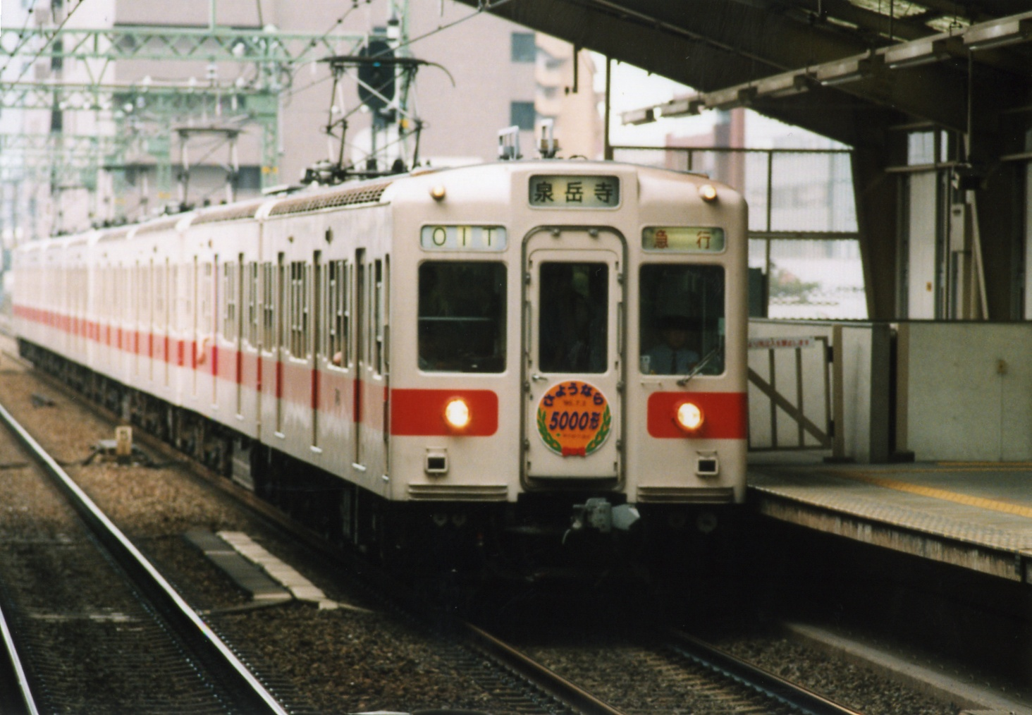 Toei 5000 at Keikyu Shimbamba Station